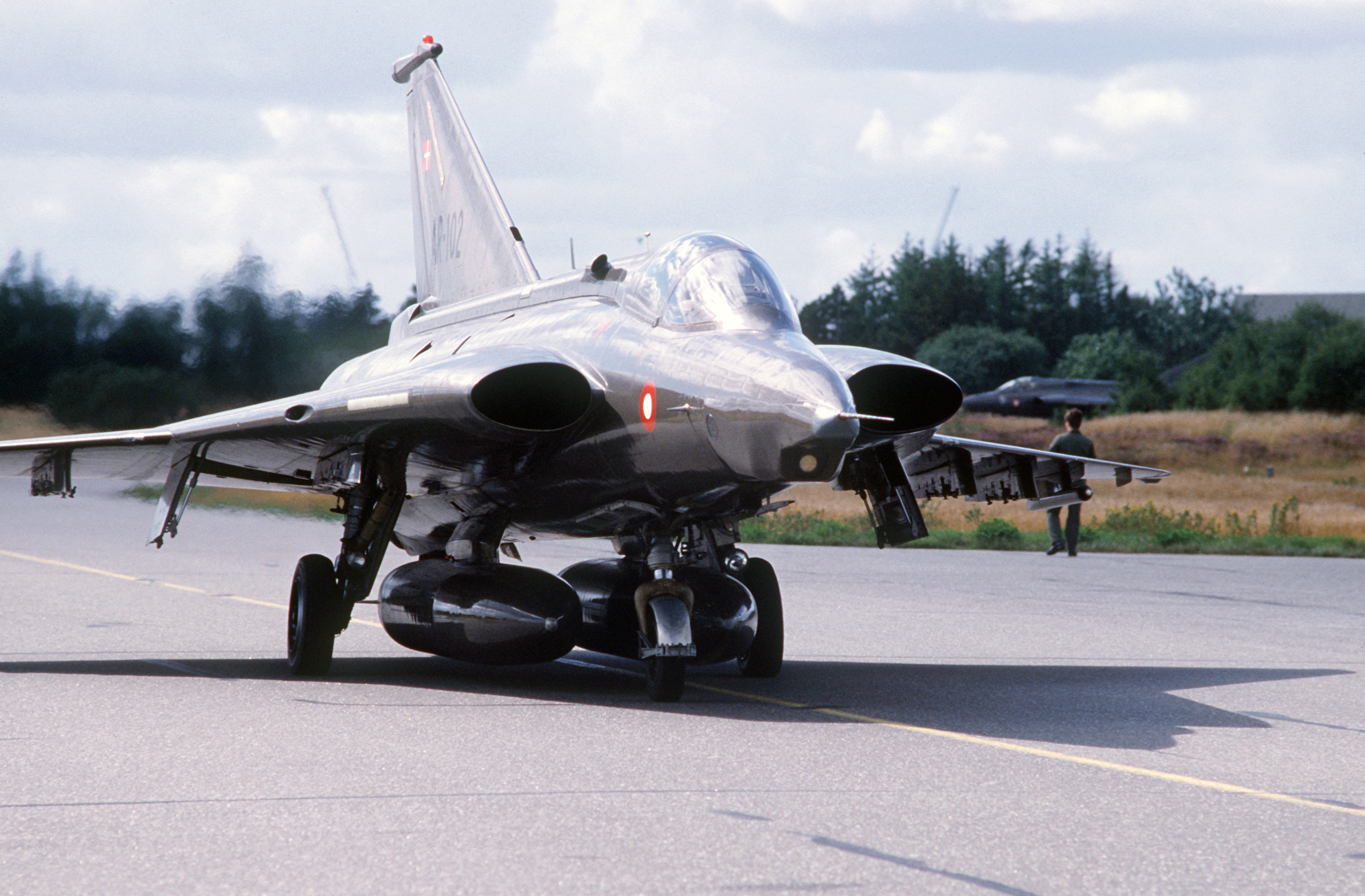 A Royal Danish Air Force RF-35 Draken aircraft taxis into takeoff position during Exercise OKSBOEL '86 at Karup Air Base.